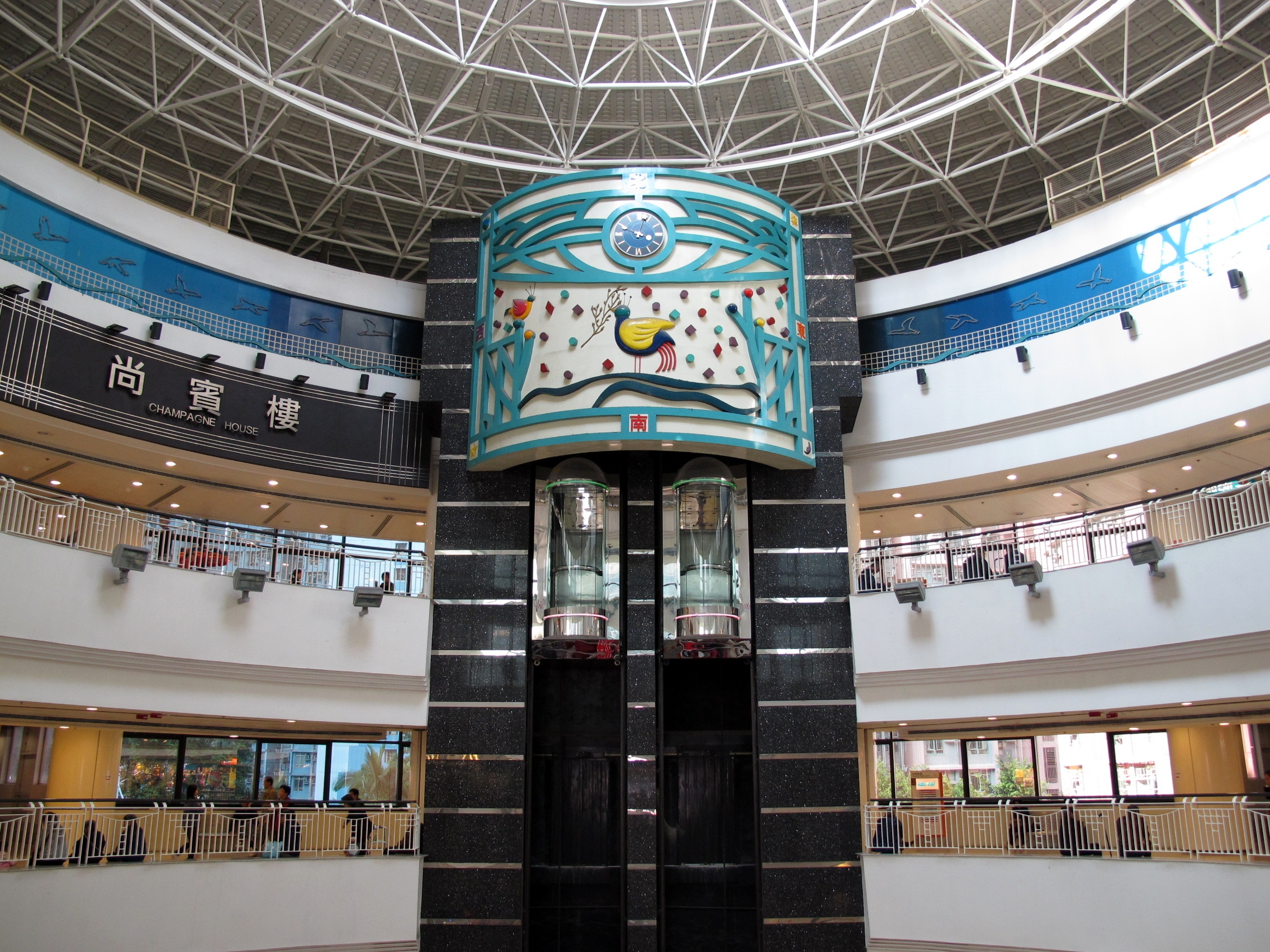 Sheung Tak Plaza Feature clock (with neon lighting)